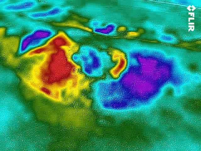 A kite aerial thermogram captured in bright sunlight. The soil was moist in places because of the cool days and near freezing nights. The air temperature was 13°C and the relative humidity ~55%. There was a very gentle breeze of about 10mph varying from the north to from the west, 3.30 to 4.30pm.